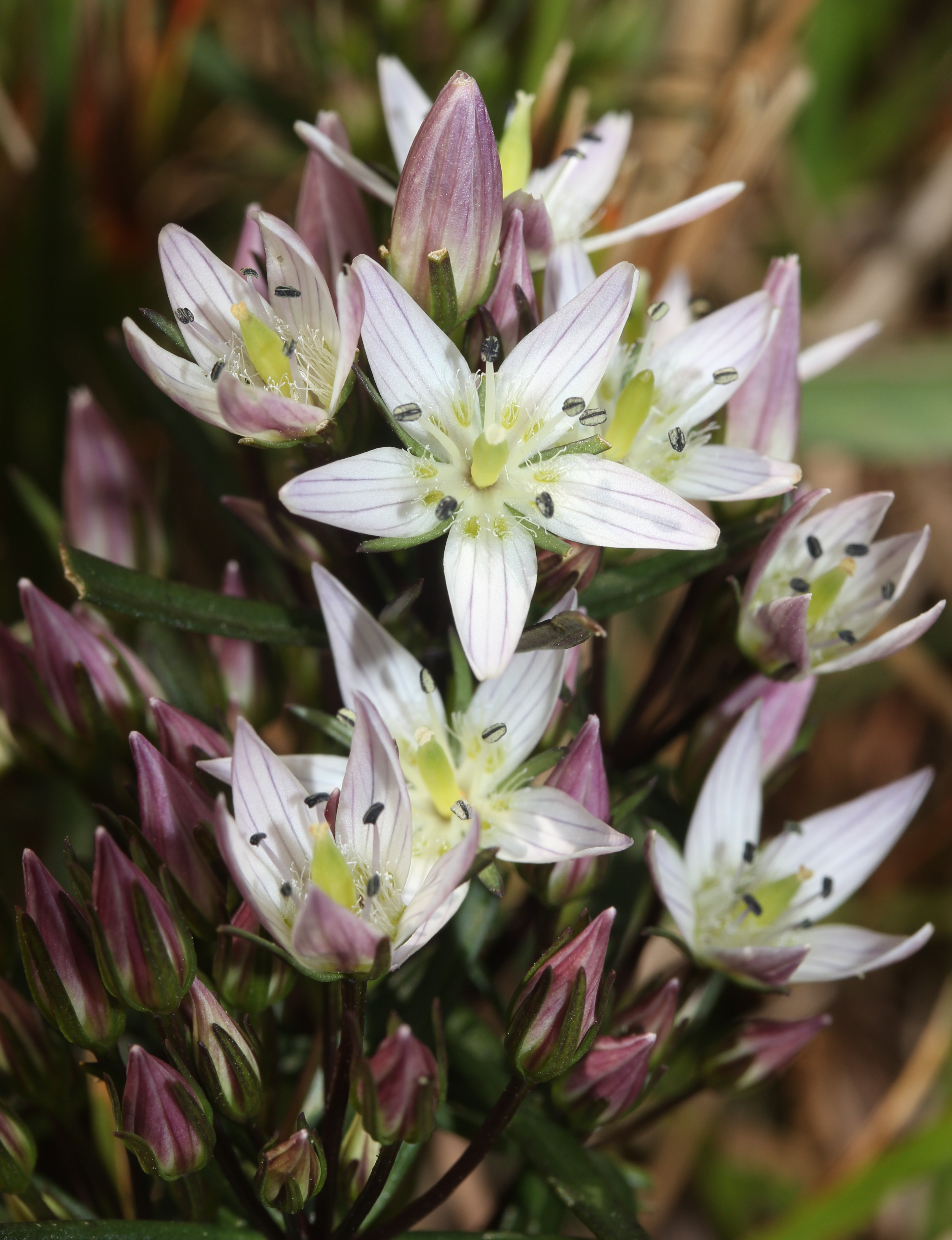 Swertia japonica (Schult.) Makino in Mount Ibuki, Shiga prefecture, Japan.